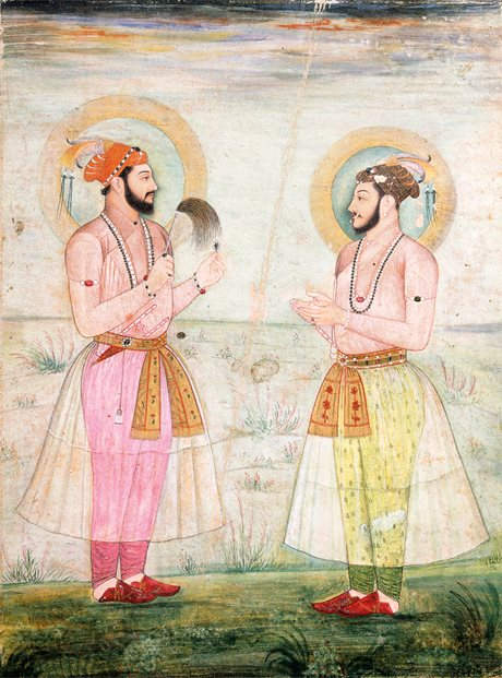 1665 depiction of Prince Dara Shikoh and Sulaiman Shikoh Nimbate wearing fine muslin robes